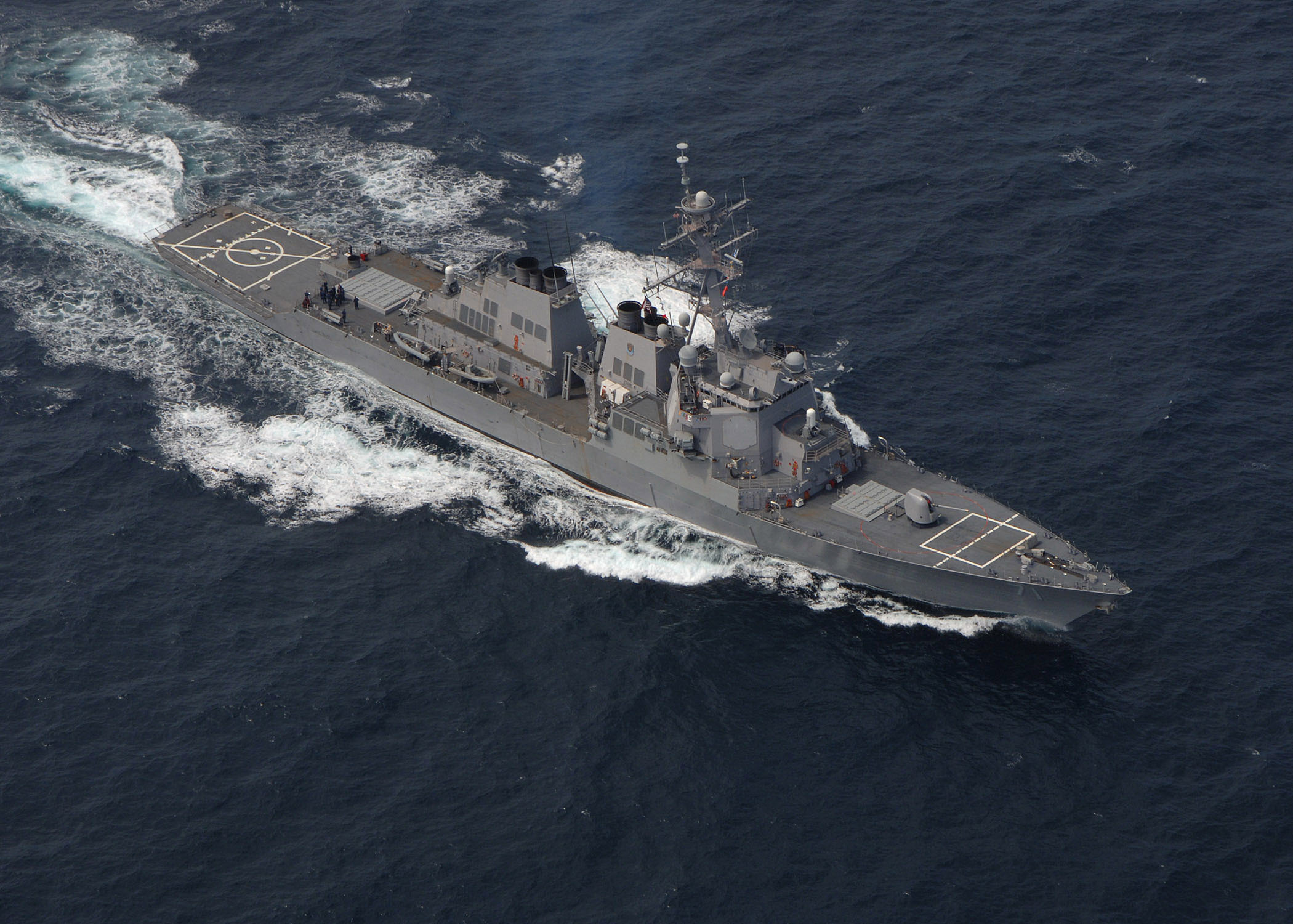 051024-N-4374S-010 Atlantic Ocean (Oct. 24, 2005) - The guided missile destroyer USS Ross (DDG 71) underway in the waters of the Atlantic Ocean during UNITAS 47-06 Atlantic Phase. Naval forces from Argentina, Brazil, Spain, Uruguay and the United States are participating in UNITAS 47-06 Atlantic phase. This is a U.S. Southern Command-sponsored exercise that enhances friendly, mutual cooperation and understanding between participating navies by enhancing interoperability in naval operations among the nations of the Western Hemisphere.